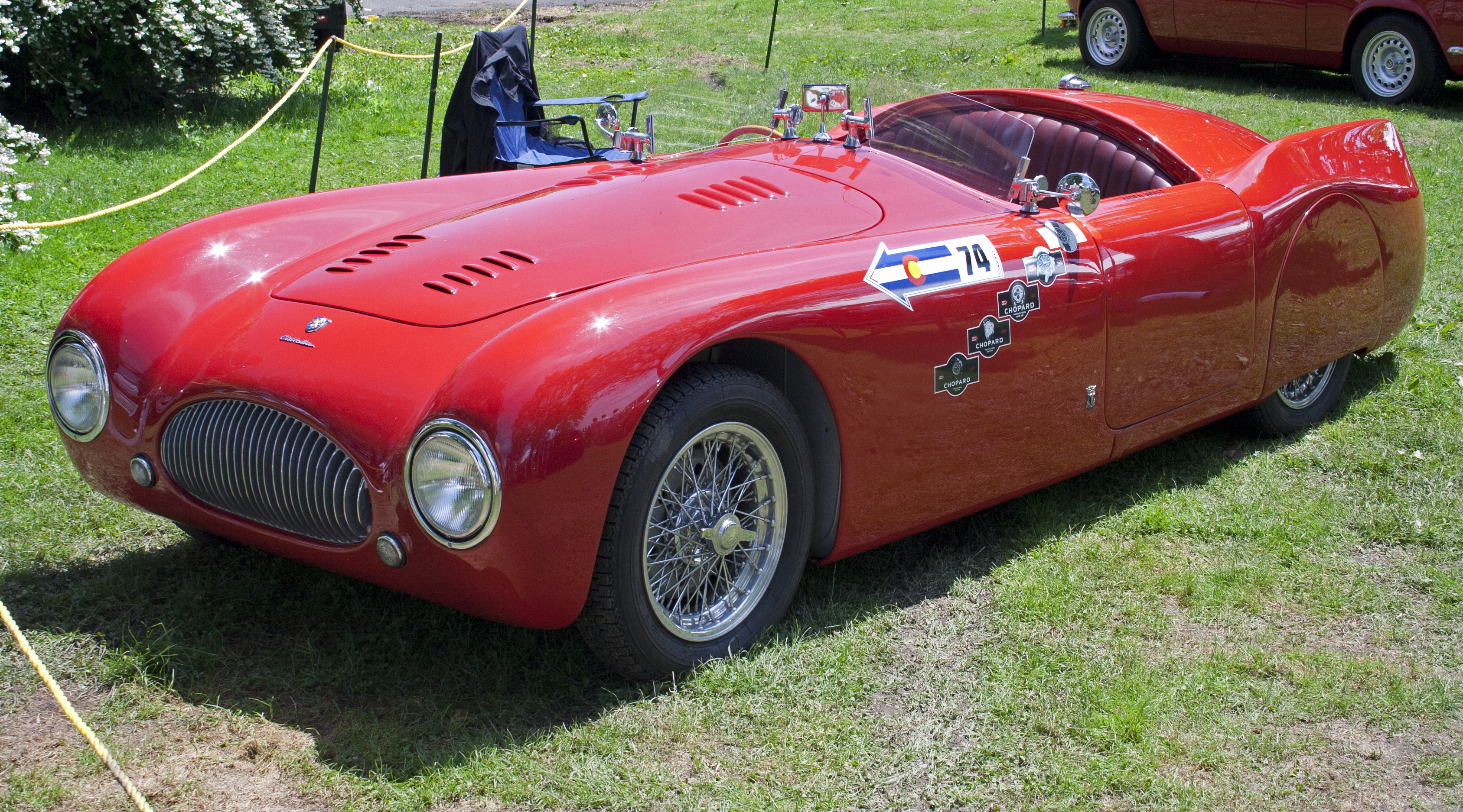 1949 Cisitalia 202 Nuvolari Spyder Mille Miglia at the 2012 Greenwich Concours d'Elegance.